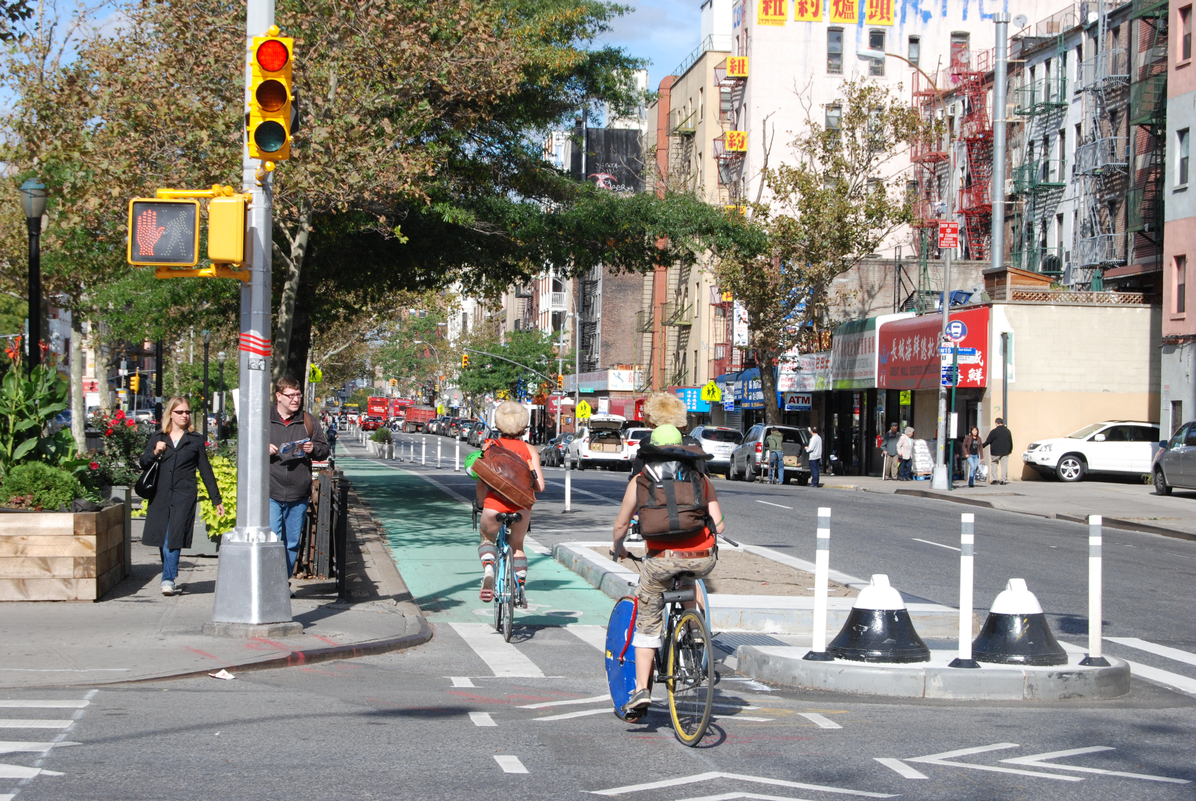 Physically Separated Bike Lanes in New York City